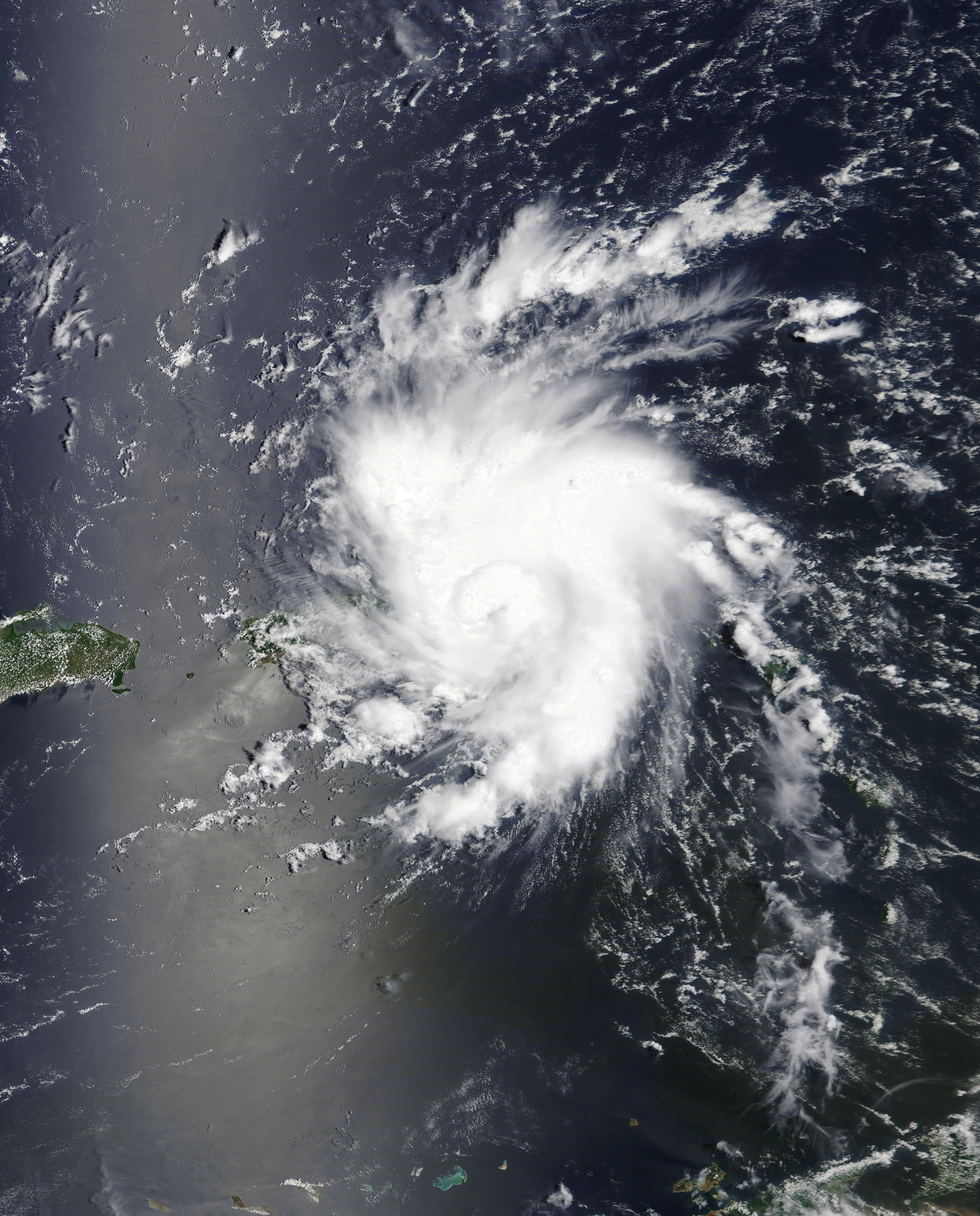 Hurricane Dorian on August 28, 2019